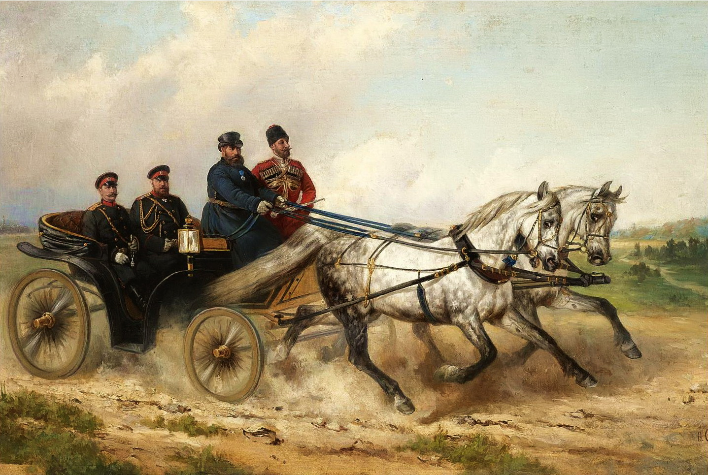 Tsar Alexander III in an open landau. (The harnessed Orlov Trotters are also depicted).